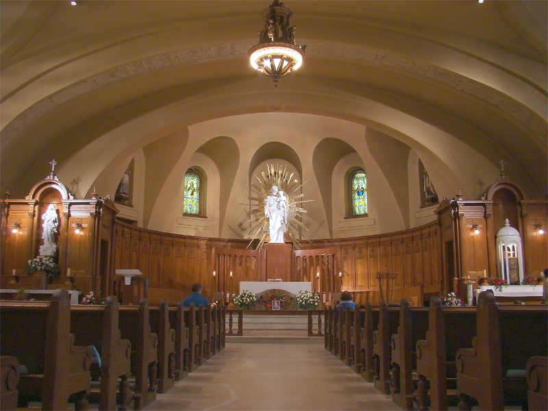 Saint Joseph's Oratory of Mount Royal, Montreal, Quebec, Canada. The crypt.